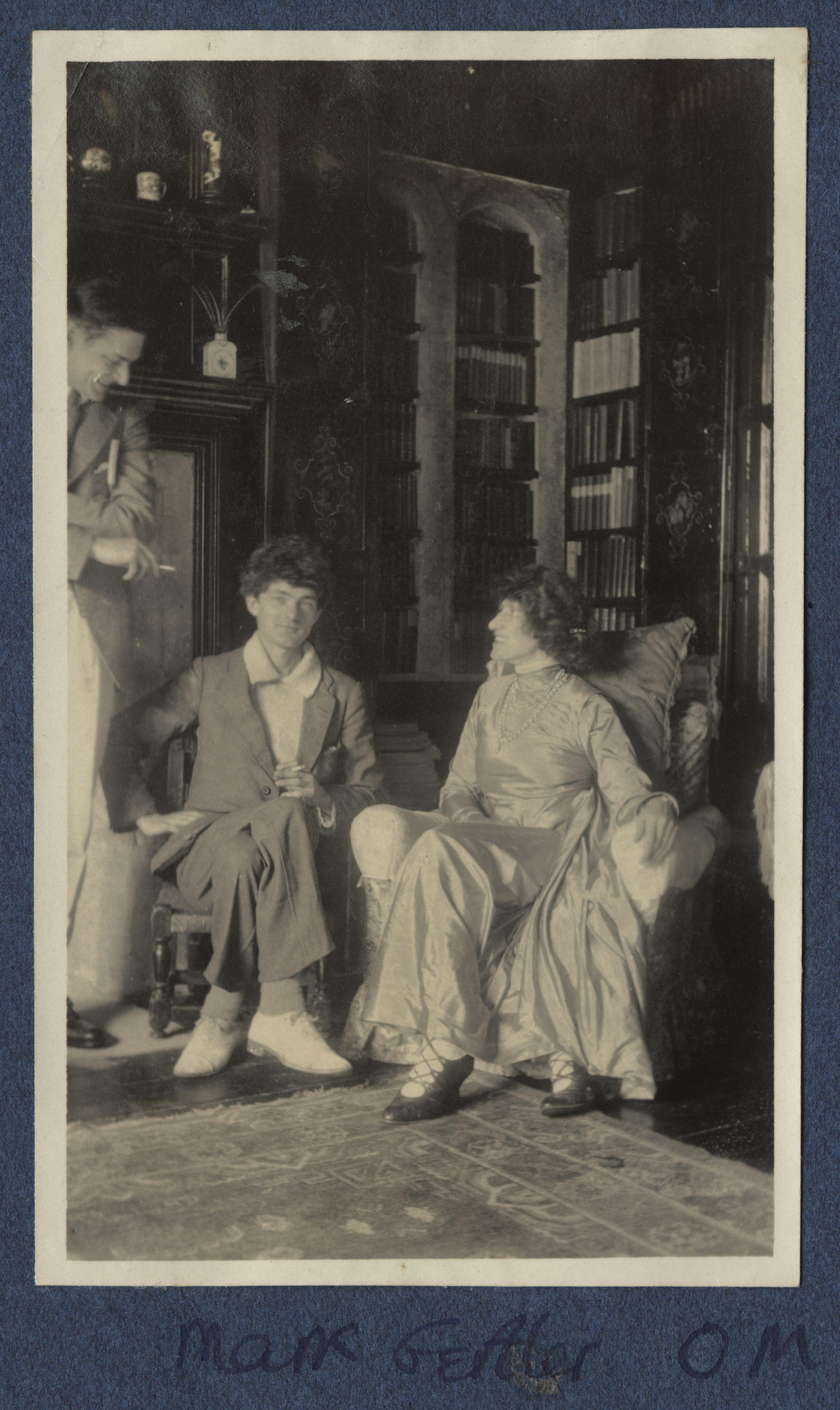 Thomas Stearns ('T.S.') Eliot; Mark Gertler; Lady Ottoline Morrell, by Lady Ottoline Morrell (died 1938).